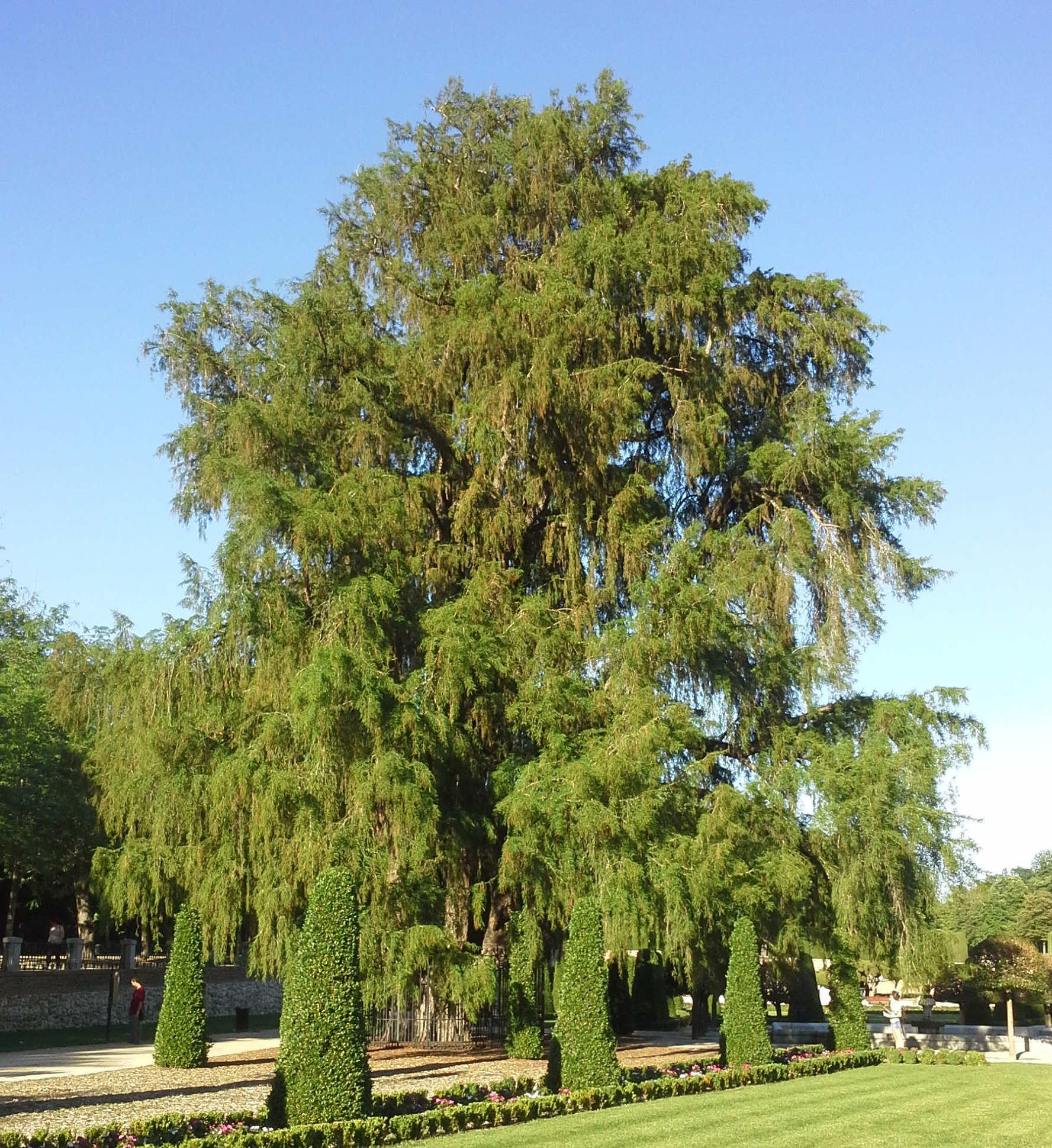 Taxodium mucronatum at Retiro Park